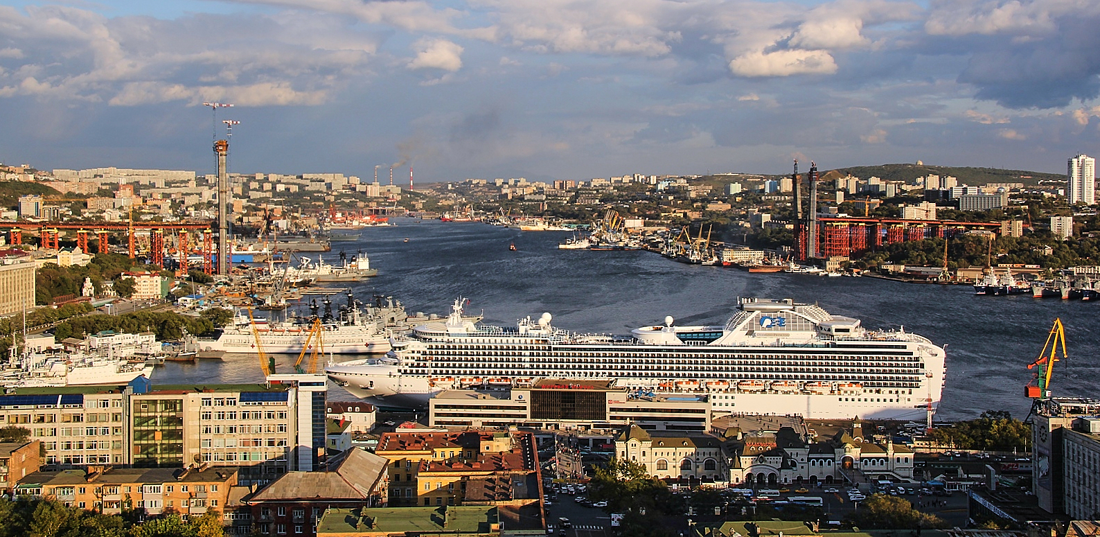 Vladivostok. Zolotoy Rog Bay view